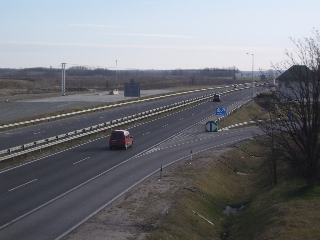 Remains of a toll road gate, Újhartyán, Hungary